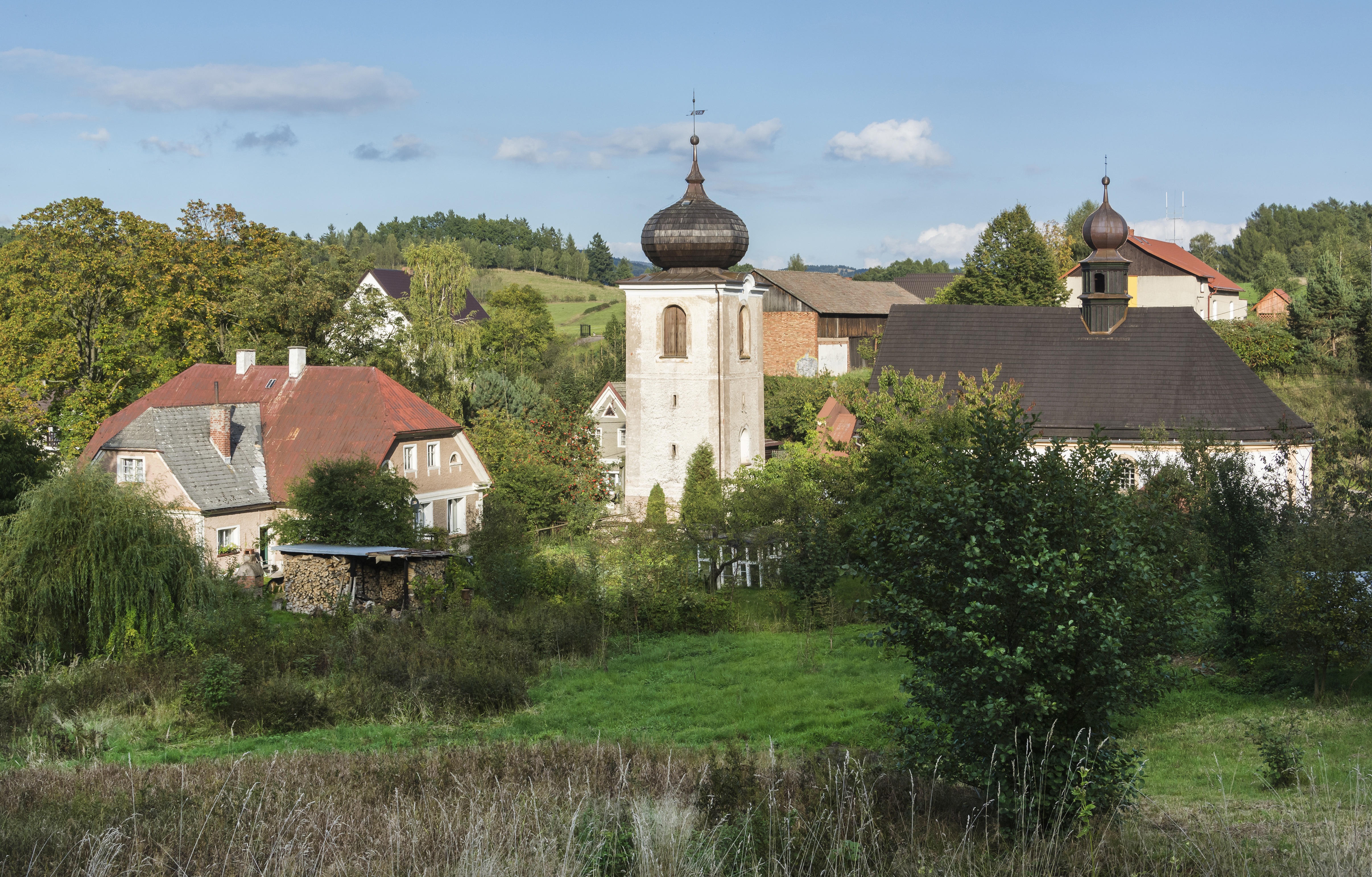 Church of Sts. Peter and Paul in Kudowa-Zdrój